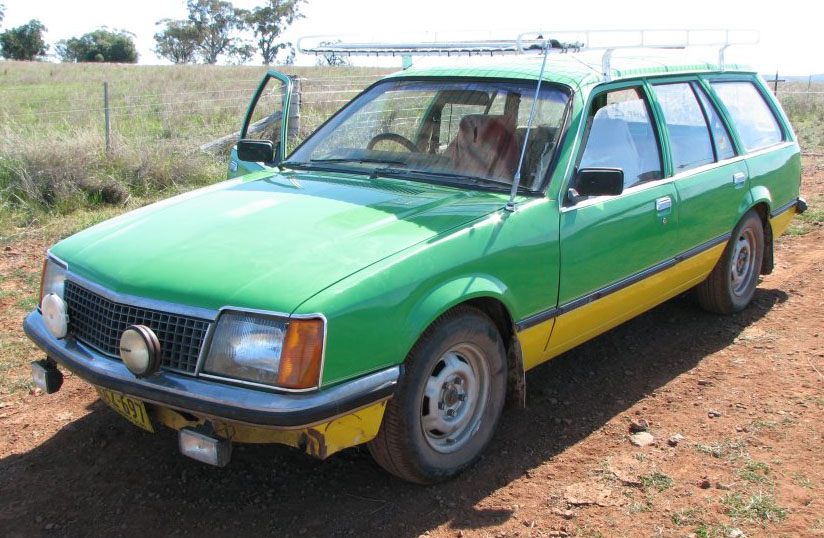 1980 Holden VC Commodore L station wagon, photographed in Australia.